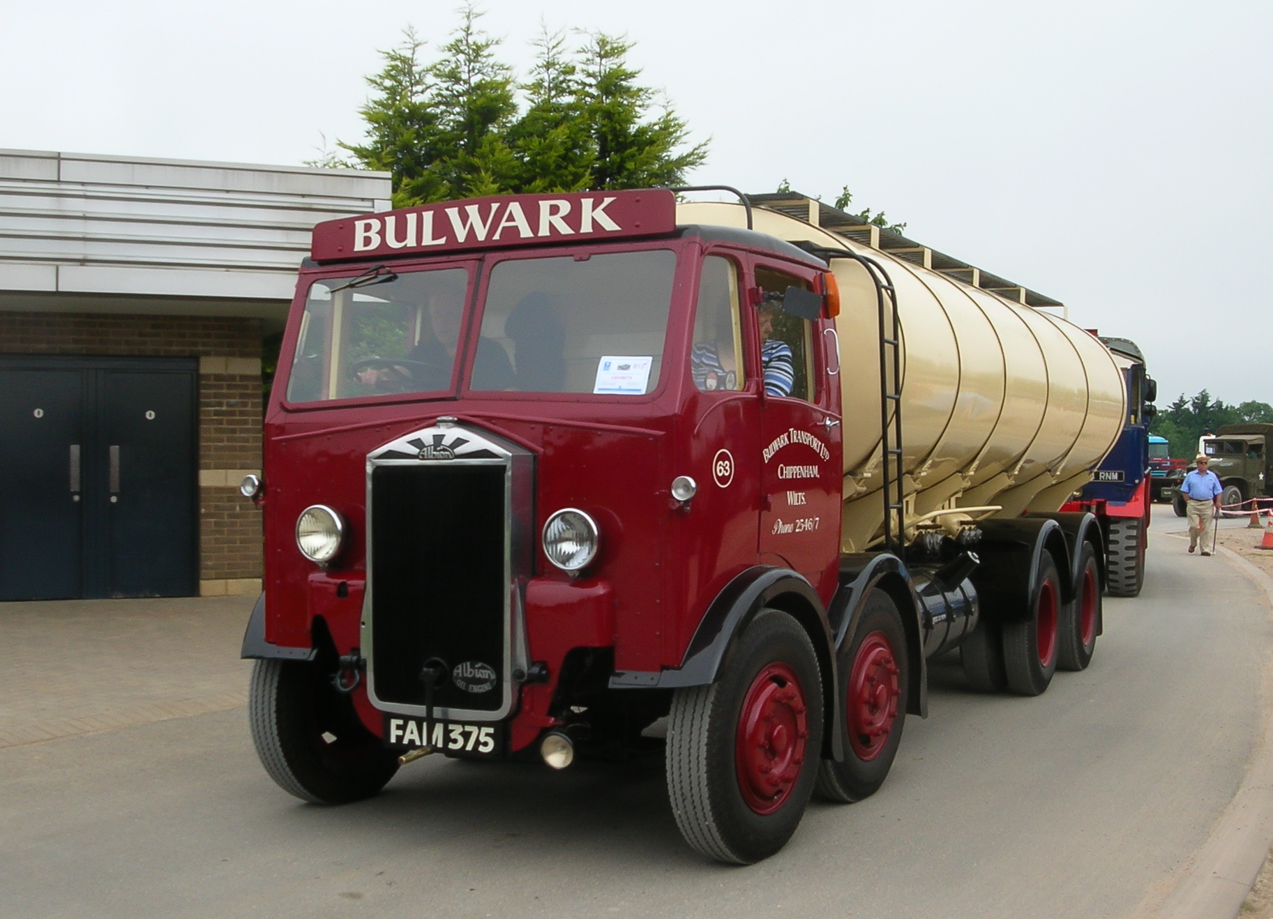 A 1948 Albion CX7 8-wheel tanker. This vehicle was photographed attending the 2007 Classic Commercial Motor Show at the Heritage Motor Centre (as it was known then), Gaydon, UK.